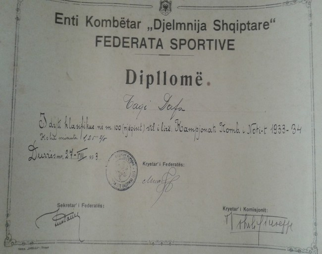 100 m viti 1933